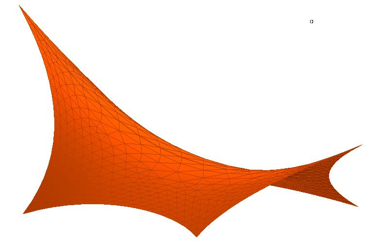 Hypar